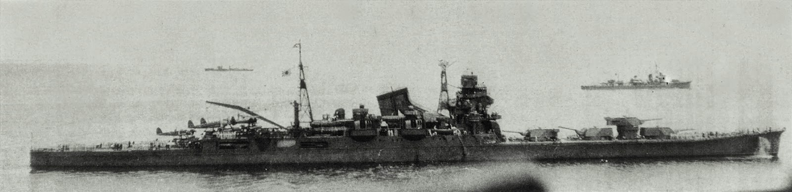 Japanese heavy cruiser Tone in early 1942. Photo was taken from battleship Hiei.